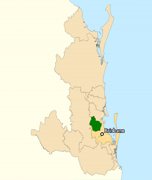 This image incorporates data that is: © Commonwealth of Australia (Australian Electoral Commission) 2009 Division of Dickson 2010